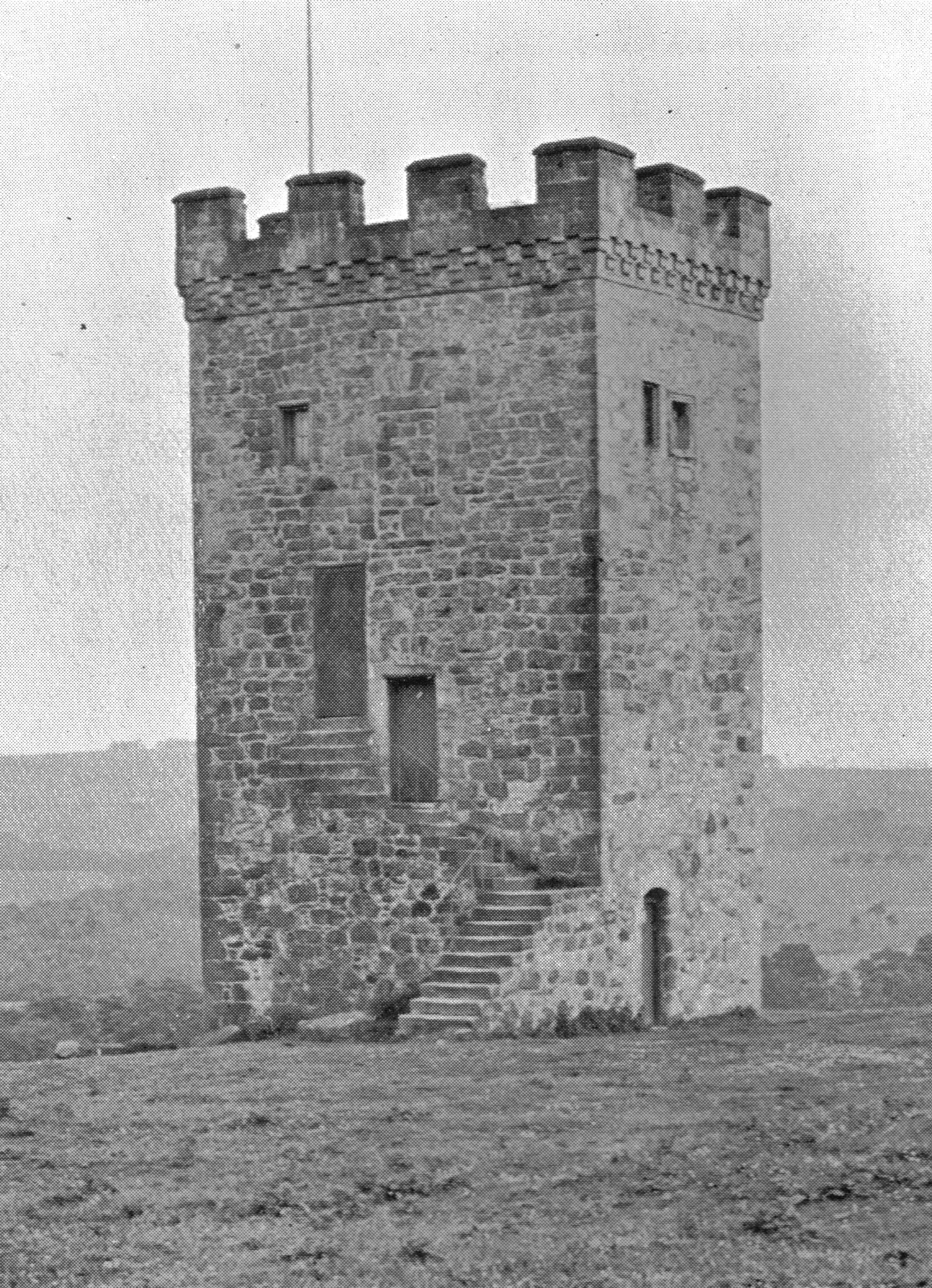 Caldwell Place Tower, Renfrewshire, Scotland. All that remains of the original Caldwell castle of the Mure family.